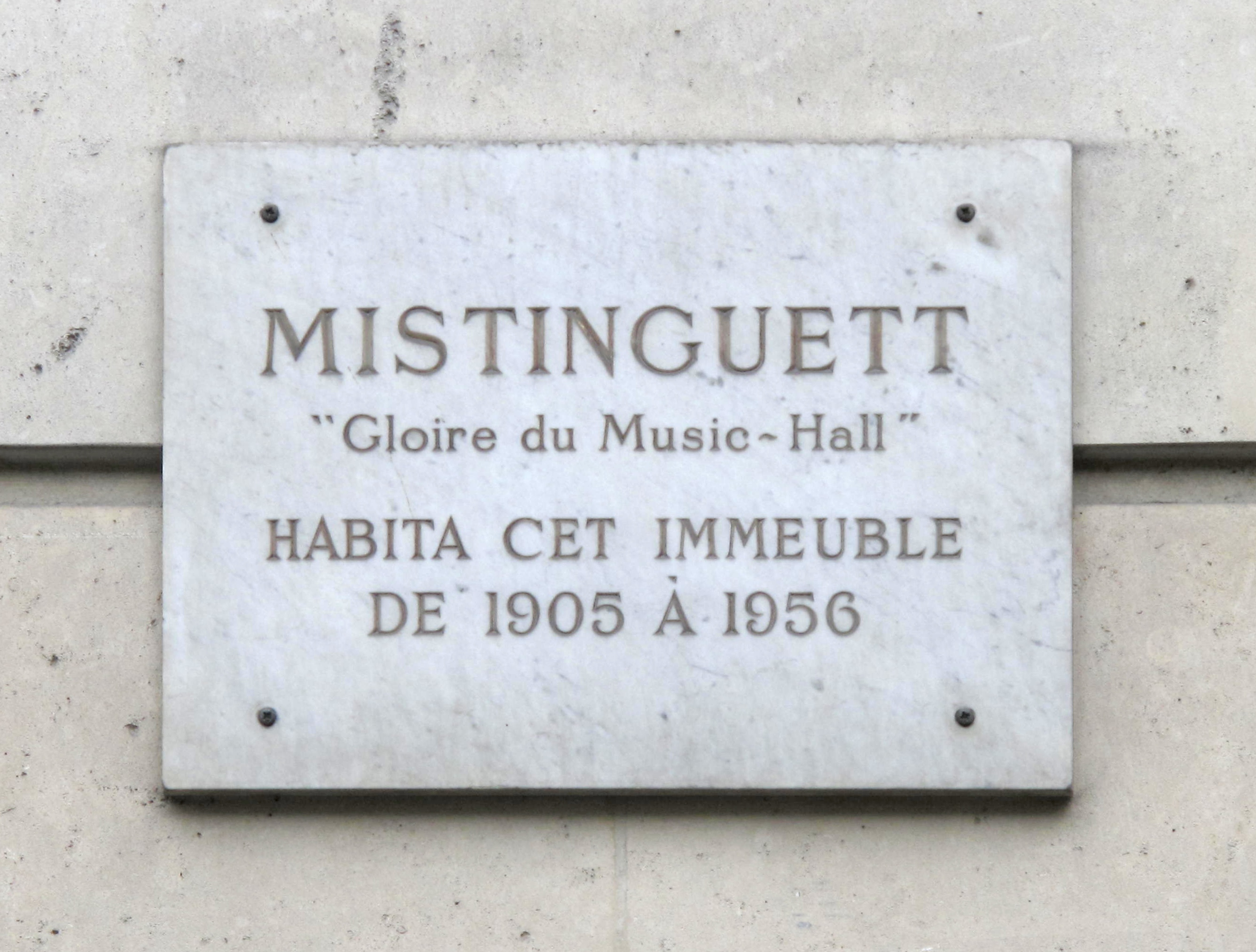 Plaque on the flat where Mistinguett lived ; 24, boulevard des Capucines, Paris